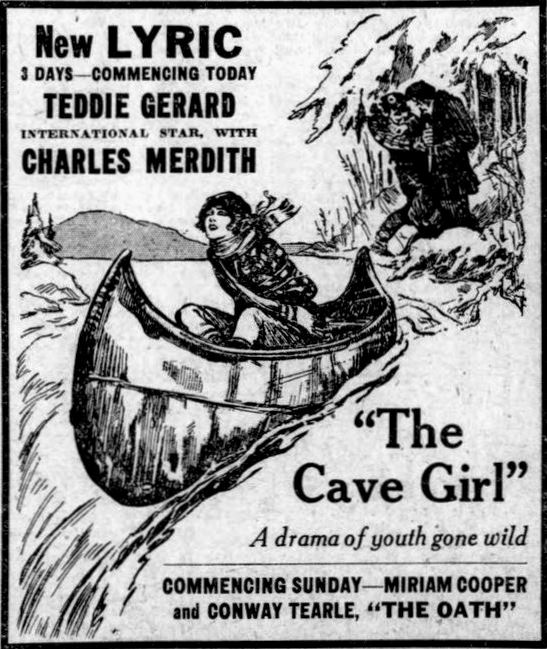 Newspaper advertisement for the American drama film The Cave Girl (1921) with Teddie Gerard, on page 15 of the May 25, 1922 Duluth Herald.